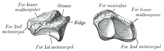 The left greater multangular bone.